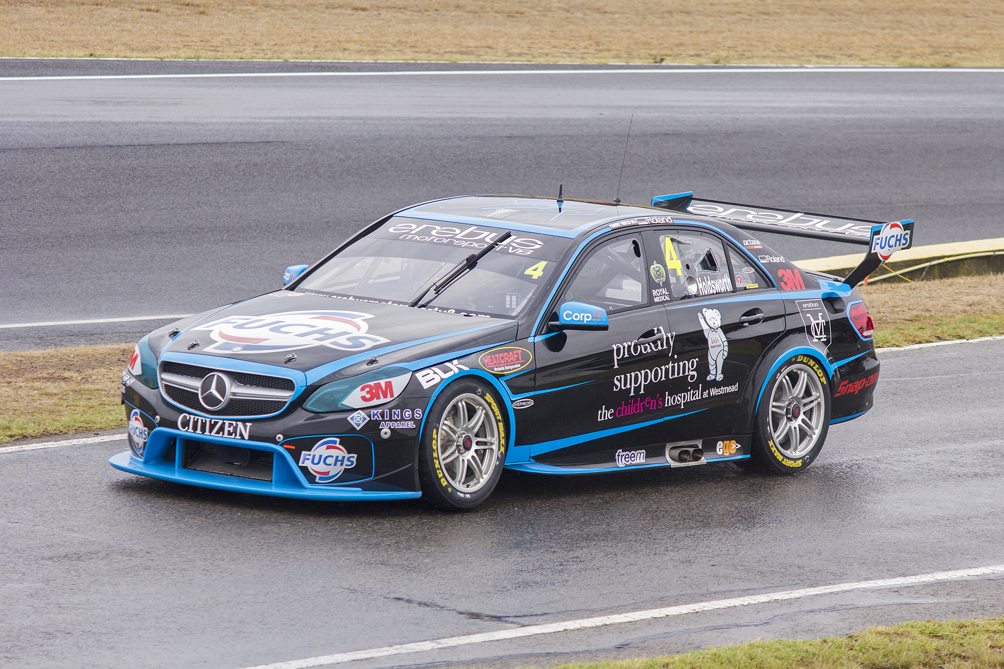 Lee Holdsworth in Erebus Motorsport car 4, departing pitlane during the V8 Supercars Test Day at Sydney Motorsport Park.